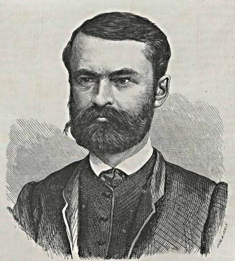 Portrait of Károly Torma